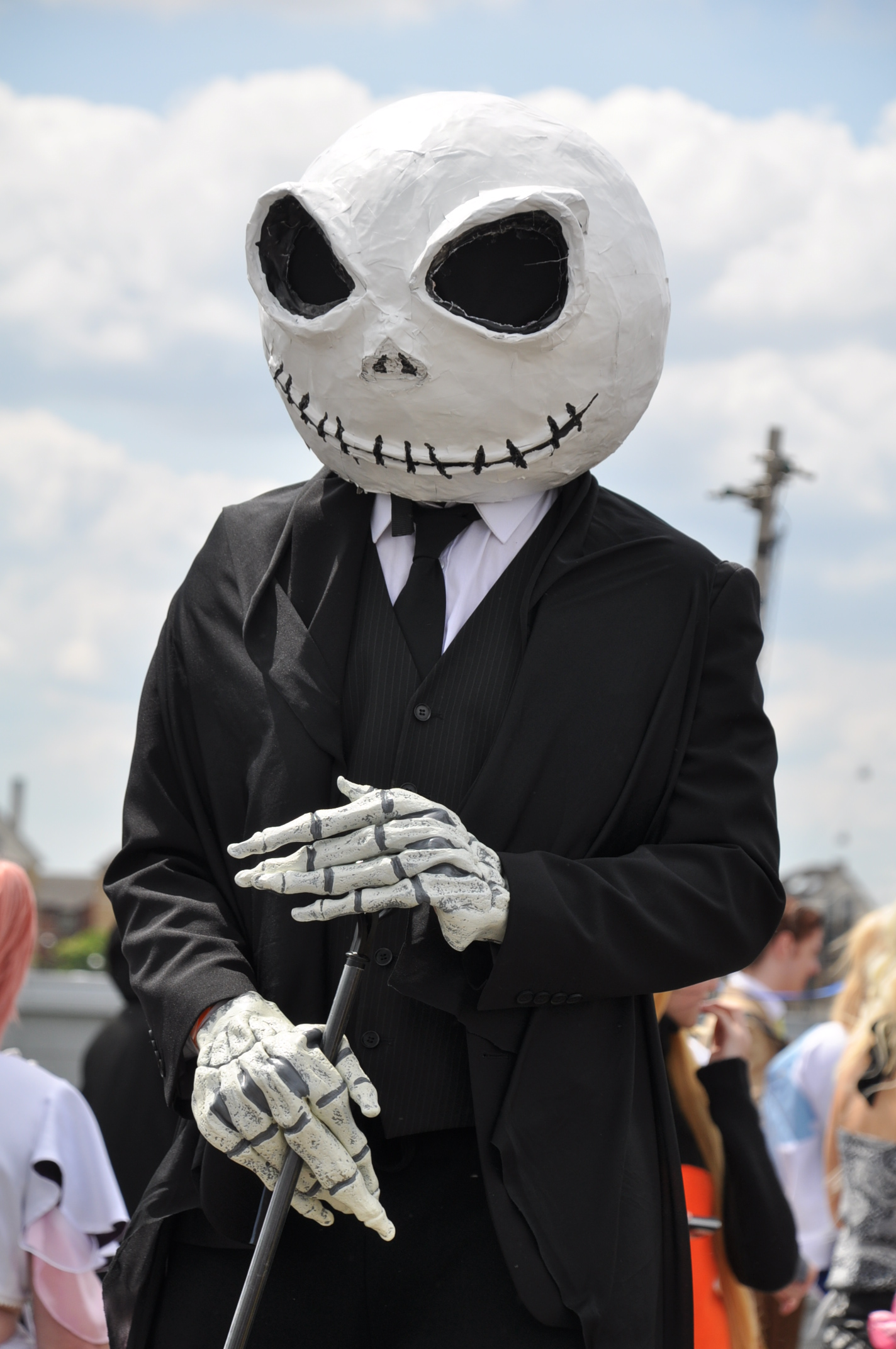 DSC_0397 Cosplay at the Summer 2013 MCM London Comic Con at the ExCeL Exhibition Centre.